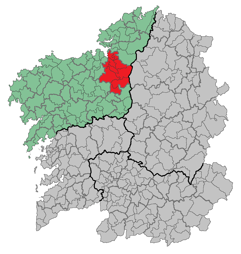 Region of Galicia (Spain)Based in: Image:Location of Betanzos.png Source: Designed by Leoplus. Original picture, designed by Caiser.